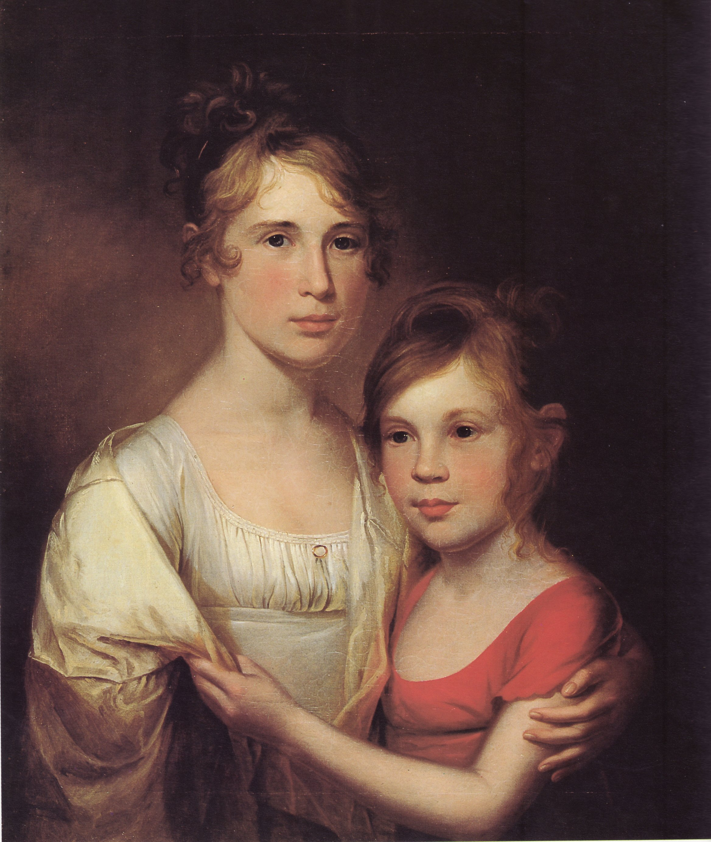 Painting Anna and Margaretta Peale by James Peale, Pennsylvania Academy of the Fine Arts